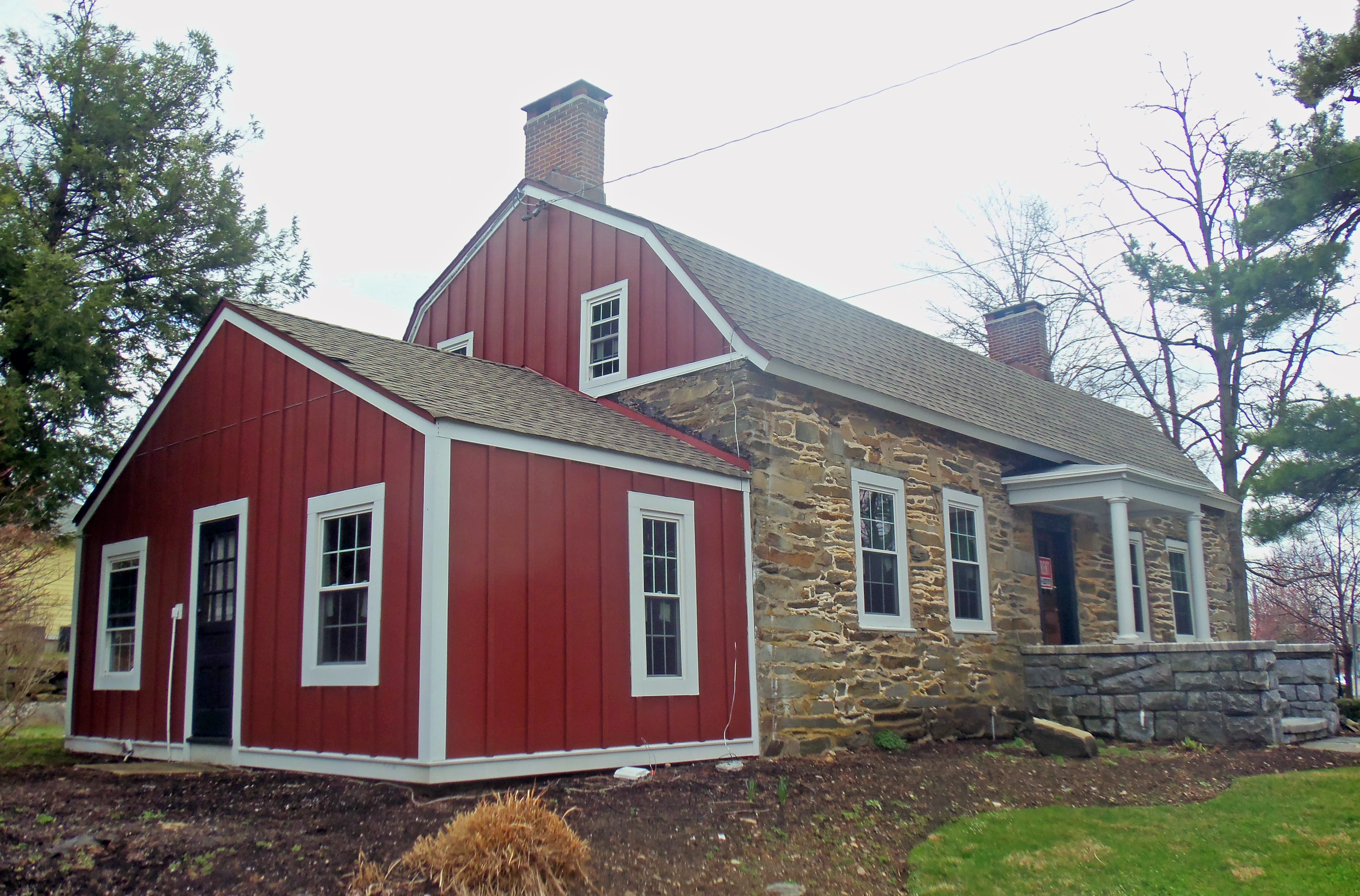 Bergh–Stoutenburgh House in Hyde Park, NY, USA, as it appeared in April 2013. Since this 2008 photo from across U.S. Route 9, the Japanese restaurant that had been in the building has moved to larger quarters, and the north wing refaced.